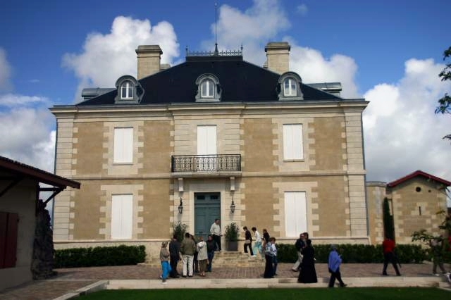 Chateau Haut-Bailly